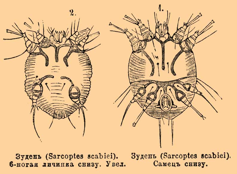 Illustration from Brockhaus and Efron Encyclopedic Dictionary (1890—1907)